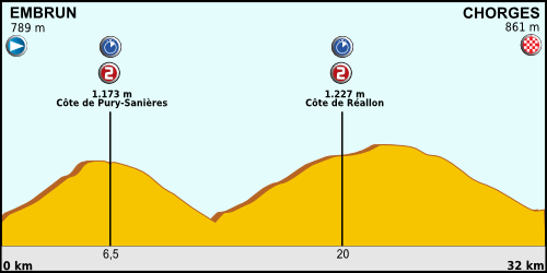 Tour de France 2013 - Profile Stage No. 17